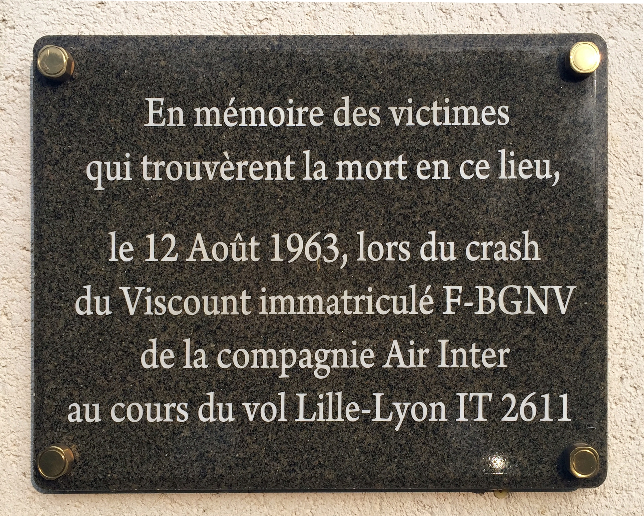 Commemorative plaque installed on April 28, 2014 in memory of people who died in the French airlines Air Inter Vickers Viscount crash, known as the "Tramoyes crash", which occurred in August 1963 near this village in the French department of Ain.